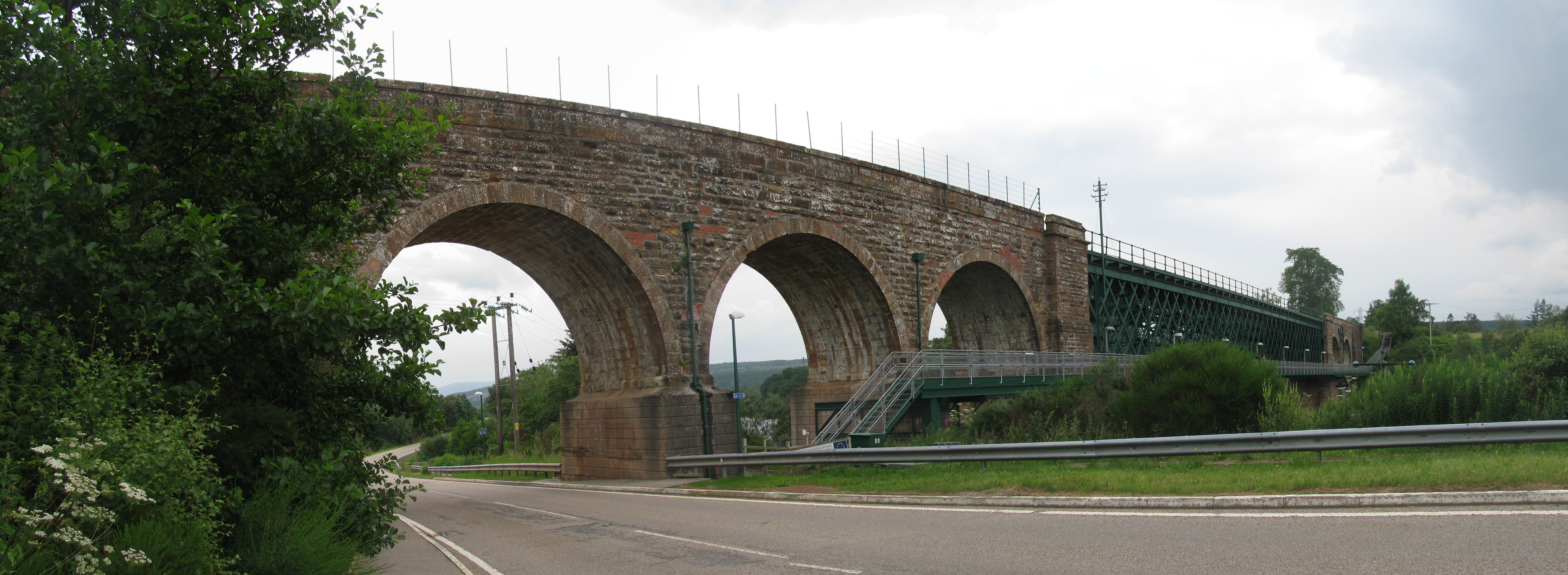 Invershin Viaduct, the Highlands, Scotland